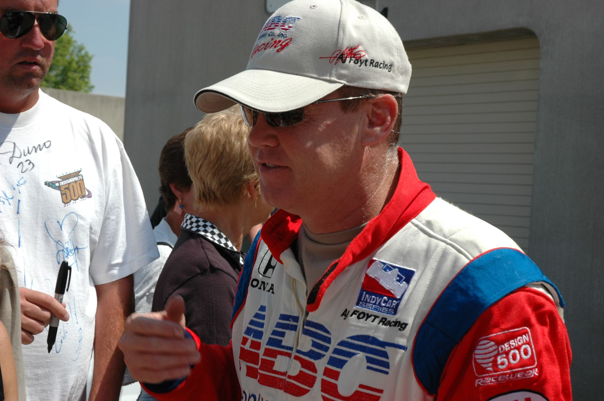 en:2007 Indianapolis 500 driver Al Unser, Jr. before the raceDSC_0006